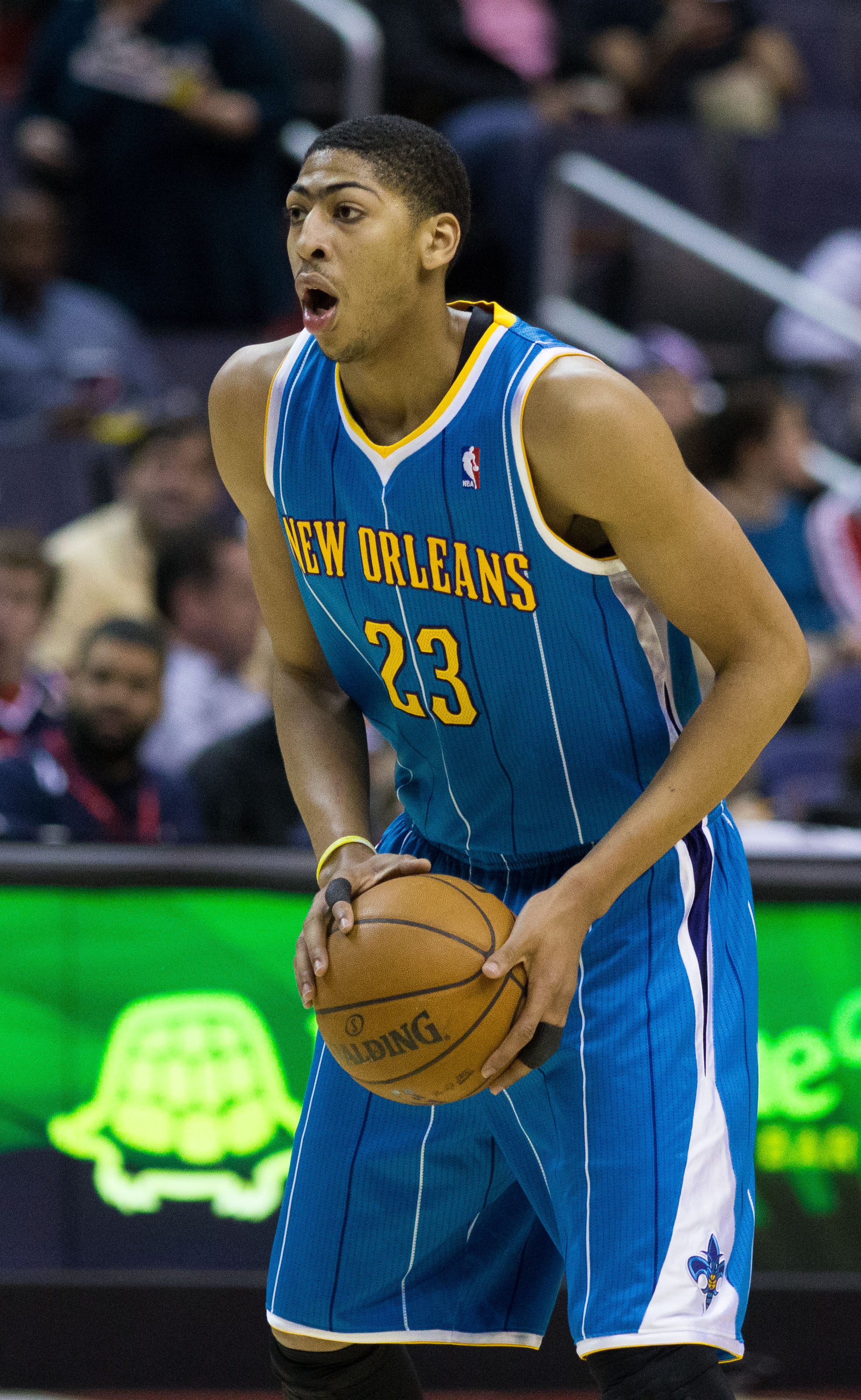 New Orleans Hornets at Washington Wizards March 15, 2013